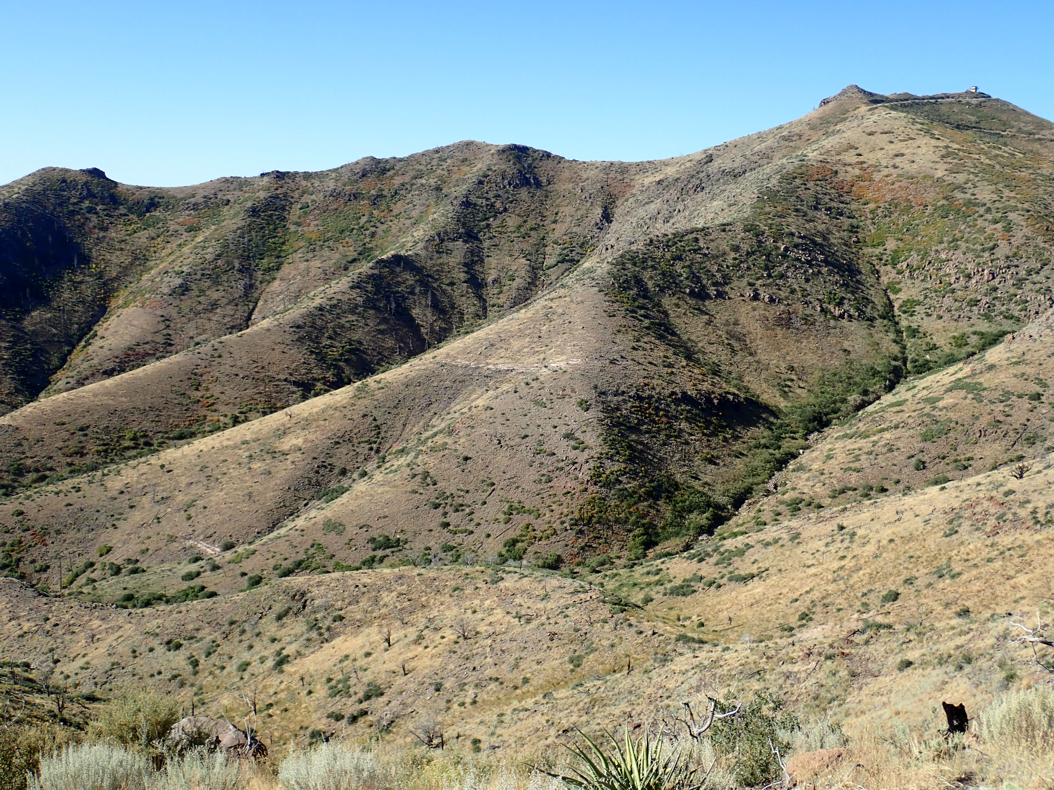 This image shows St Peters Dome, the highest point in the San Miguel Mountains, a subrange in the southeastern Jemez Mountains, New Mexico, USA. The mountains here are underlain by rock of the Paliza Canyon Formation, Keres Group.